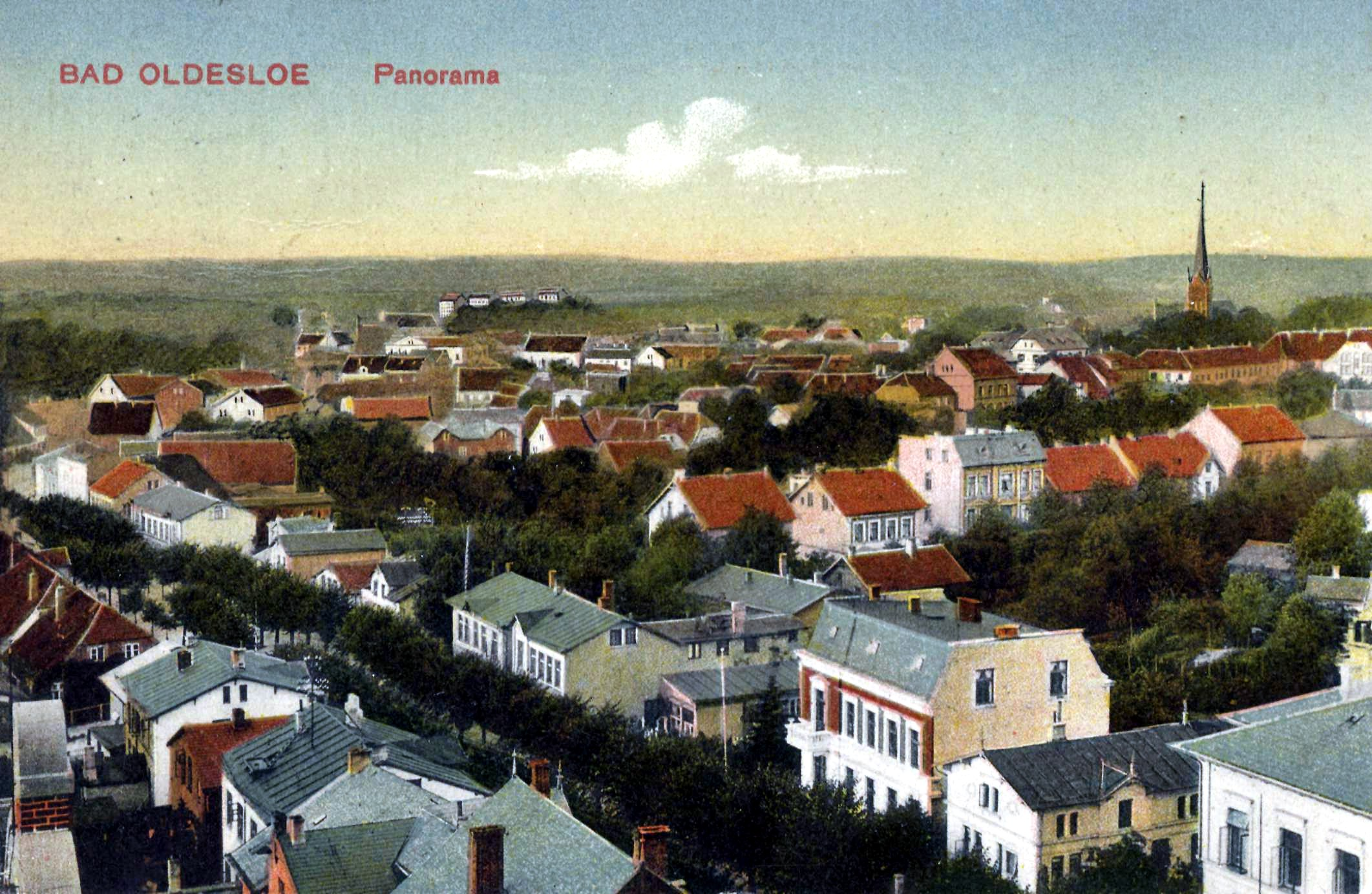 Bad Oldesloe